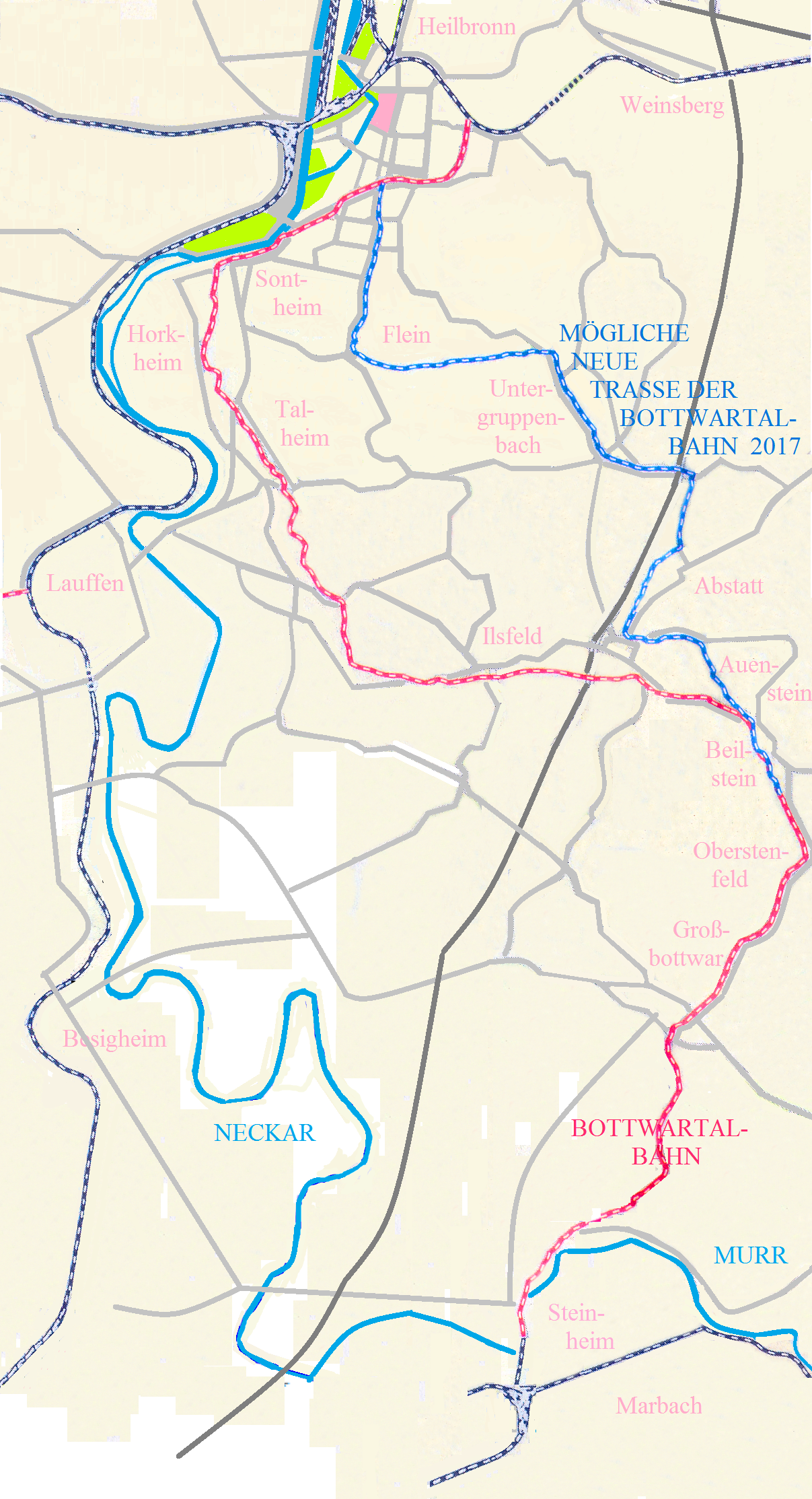 Stadtbahn Heilbronn Zielkonzept 2017 Bottwartalbahninitiative mit Trassenvorschlag durch Ilsfeld, Abstatt, Happenbach, Untergruppenbach und Flein nach Heilbronn.